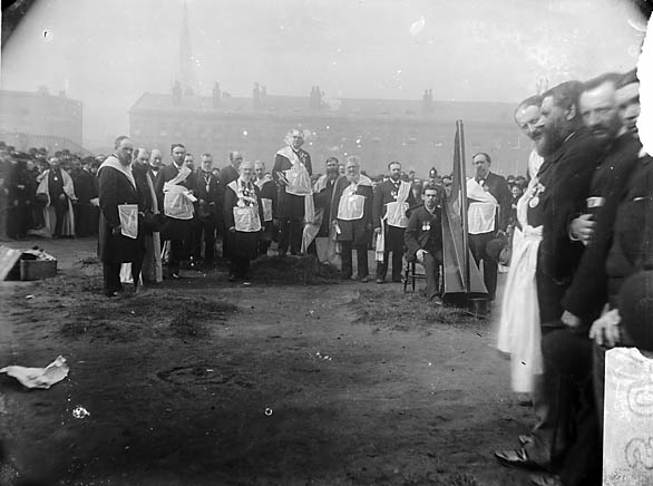 Gorsedd of Bards at the 1884 Liverpool Eisteddfod.